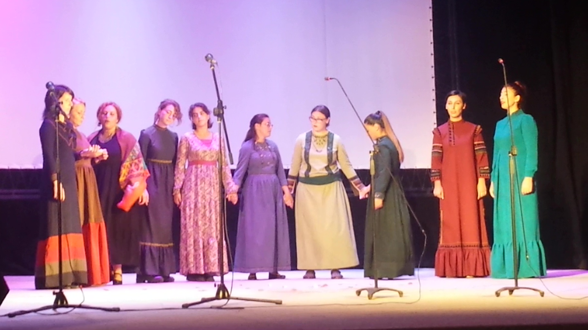 Ialoni, a traditional Georgian women's vocal ensemble, performing in Oni, Georgia.